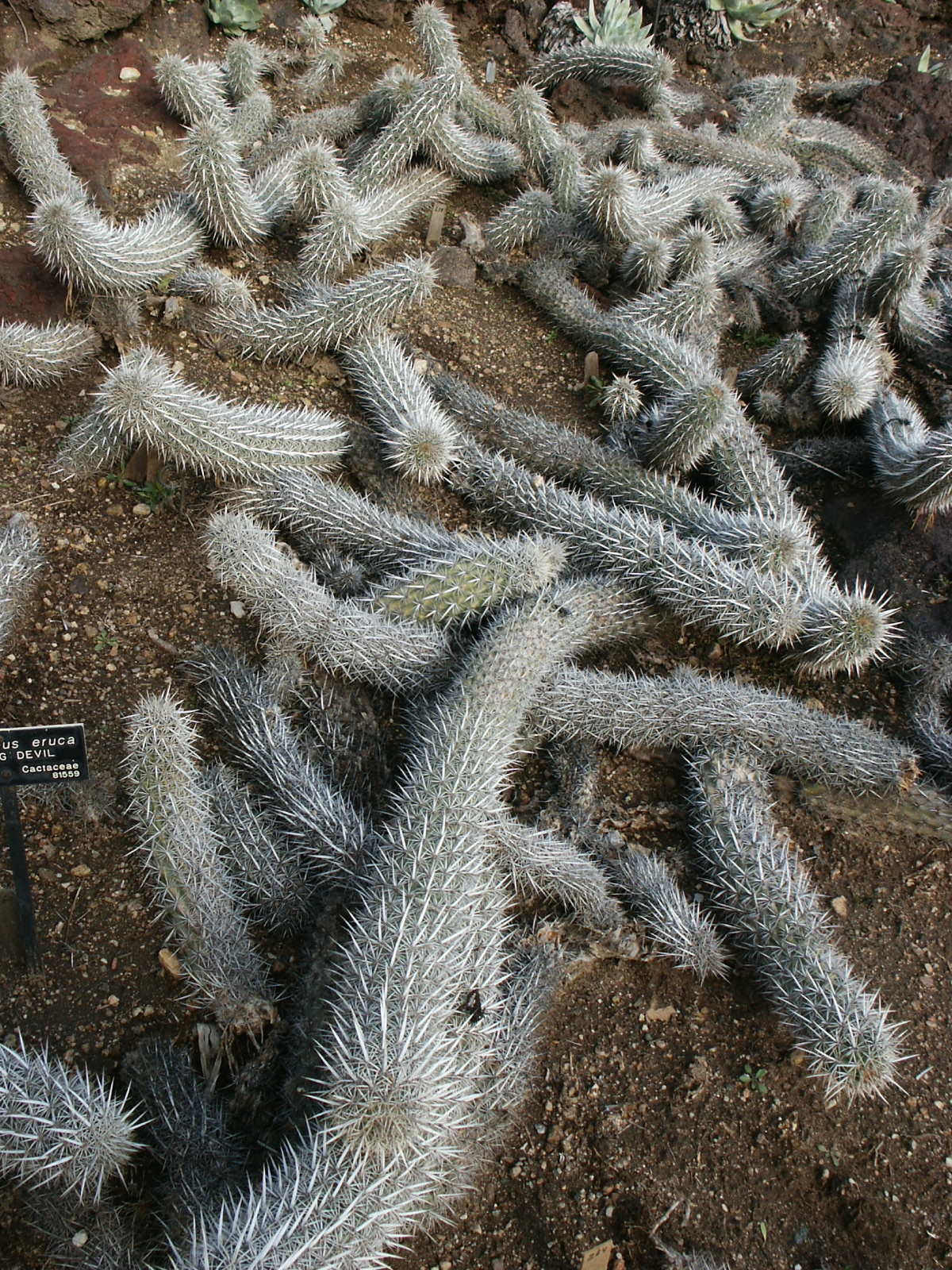 Stenocereus eruca, Creeping Devils - Huntington Library Desert Botanical Garden in afternoon after and during rain, February 2009 - Various cactus and succulent plants